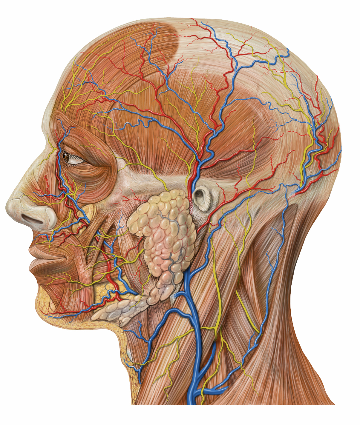 head anatomy lateral view superficial details